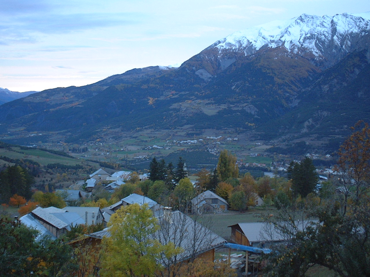 Ubaye Valley, Alps, France. I made this photo in october 2004